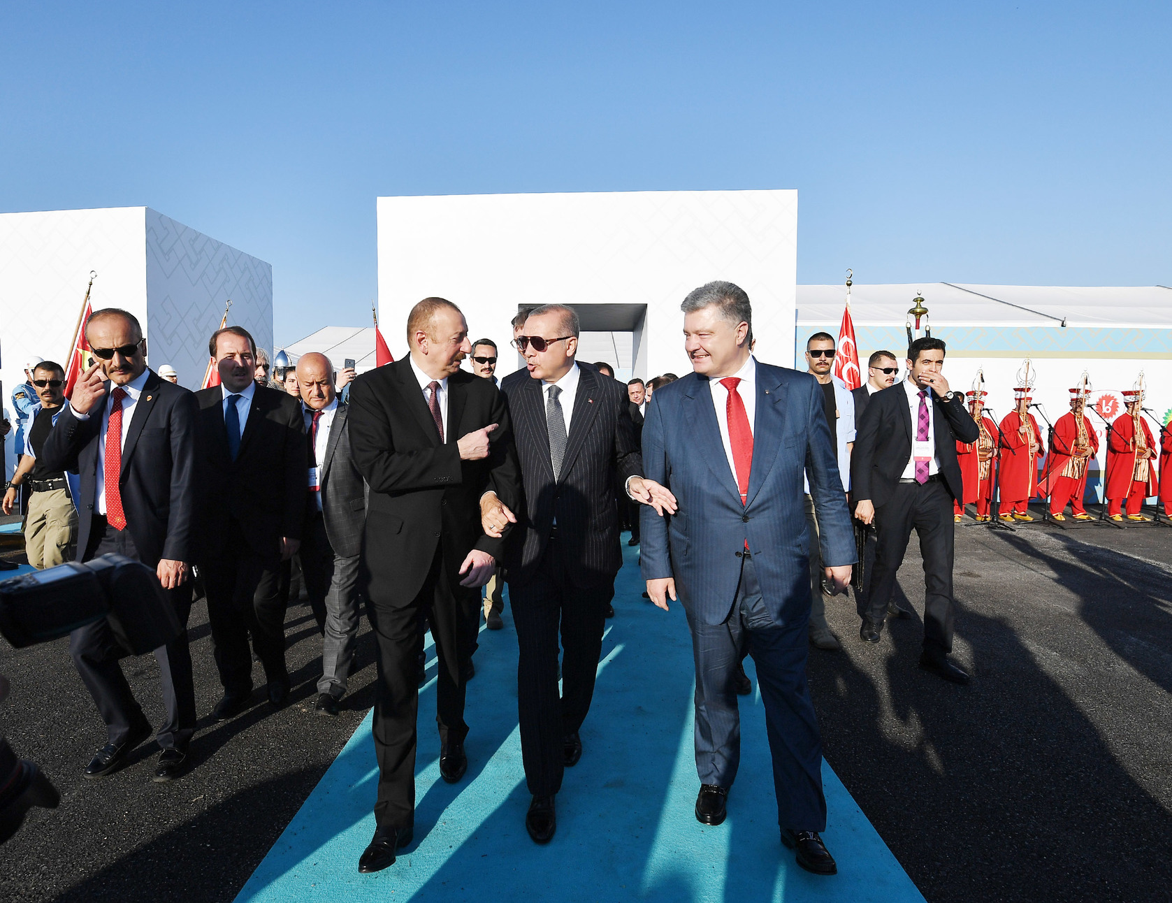 Presidents of Azerbaijan, Turkey and Ukraine at the opening ceremony of the TANAP project in turkish city Eskisehir